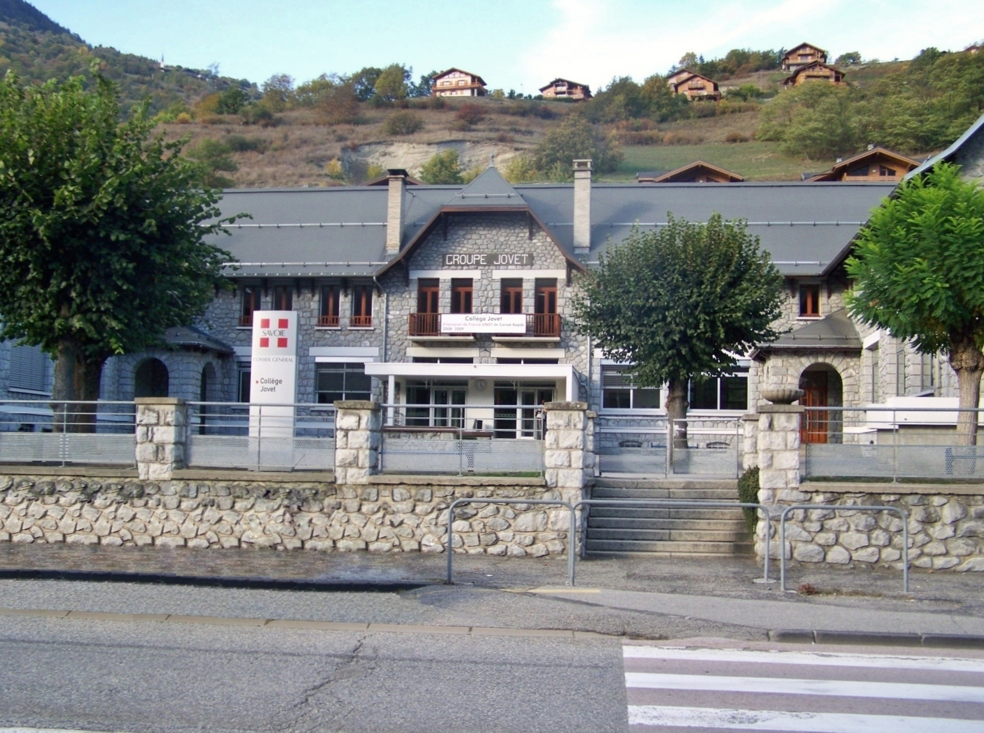 Building of collège Jovet middle school in commune of Aime, Savoie, France.